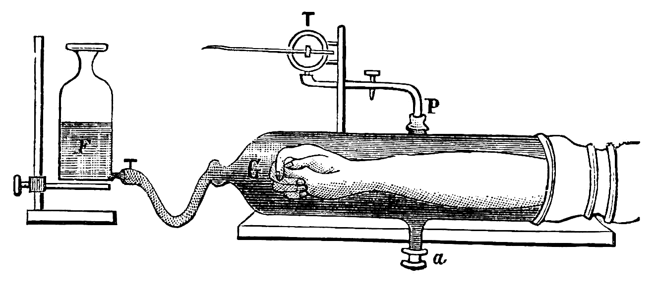 Pletismograph